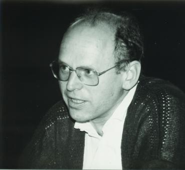 Claus-Peter Schnorr at Oberwolfach